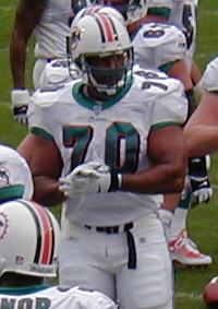 If used somewhere other than Wikipedia, Nelson, by name.